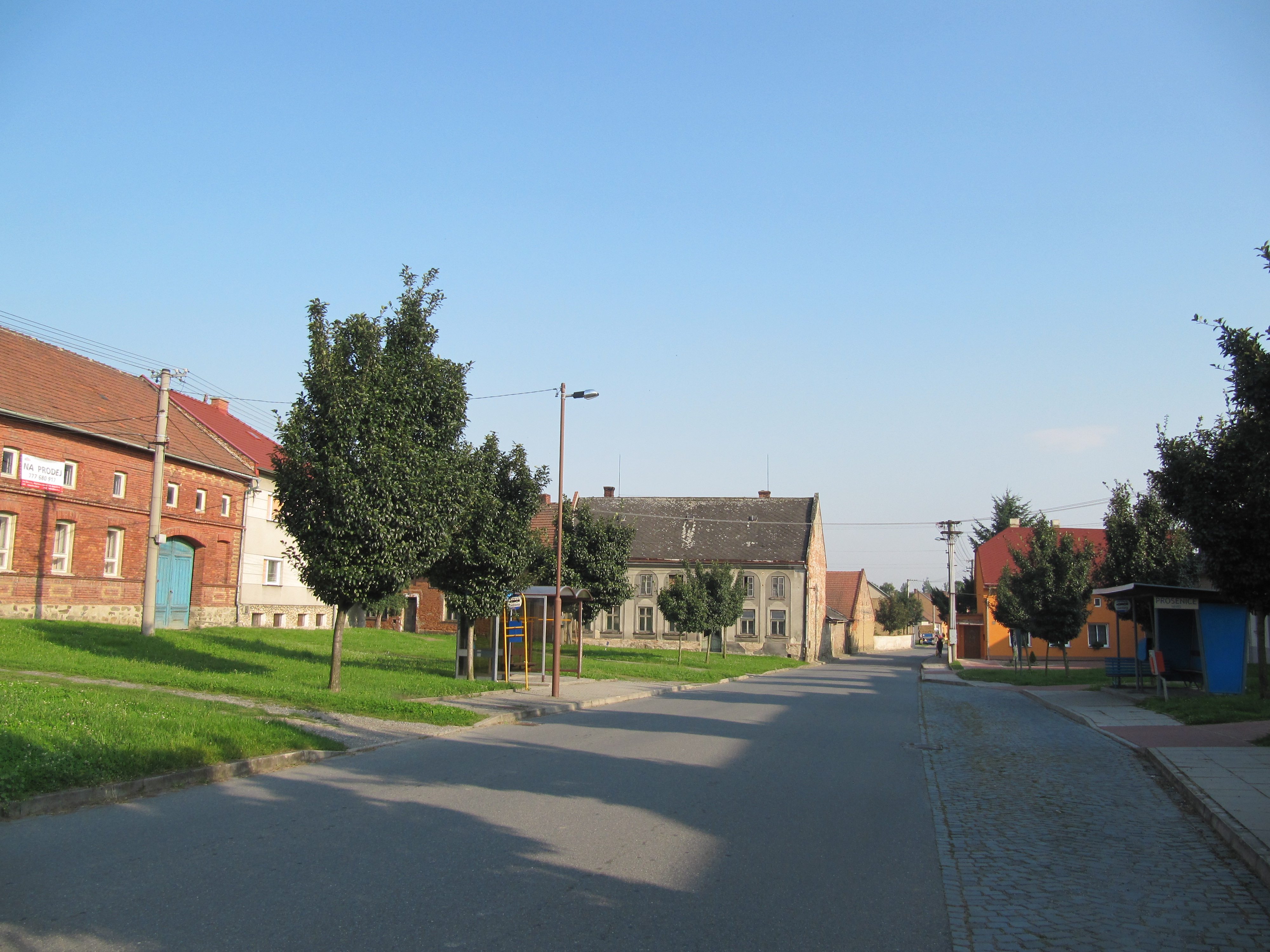 Prosenice, Czech Republic, Přerov District. Common. This photograph was taken within the scope of the third year of the 'Czech Municipalities Photographs' grant.